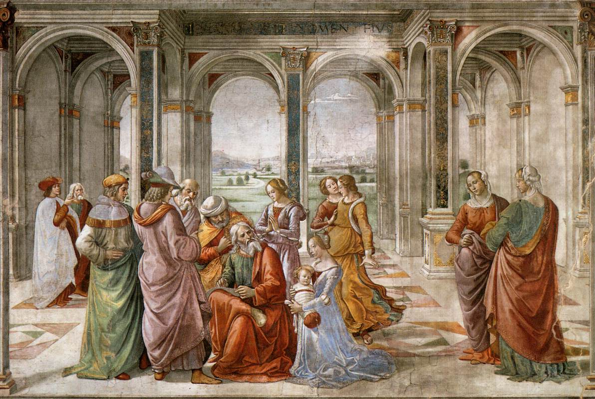 GHIRLANDAIO, Domenico Zacharias Writes Down the Name of his Son Fresco Cappella Tornabuoni, Santa Maria Novella, Florence